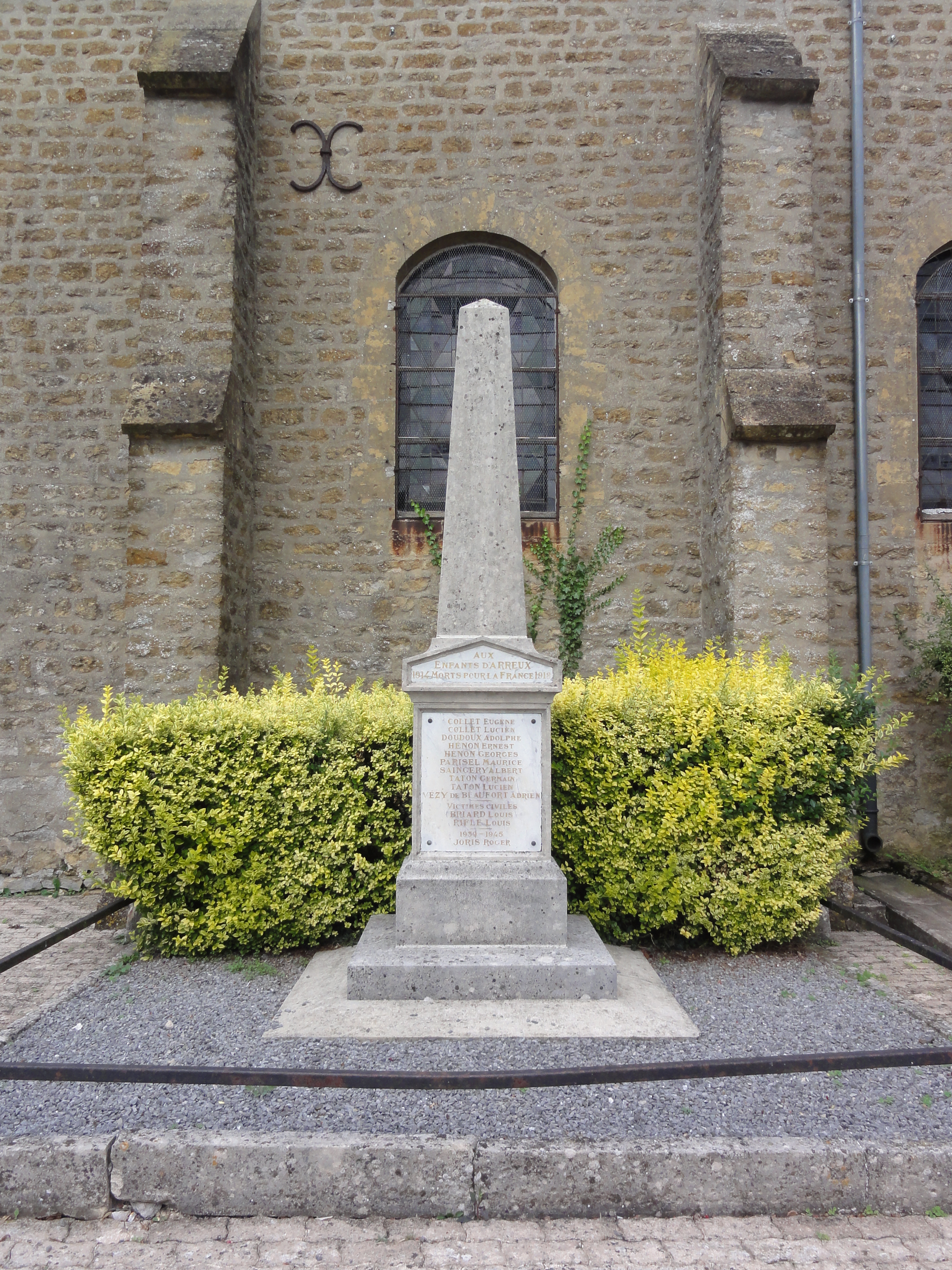 Arreux (Ardennes) monument aux morts